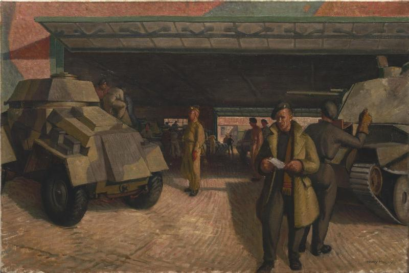 The Tank Park image: A tank park with a Guy armoured car parked to the left and an A13 tank on the right. The tank is partly obscured by soldier standing in front of it, pointing and a second soldier, facing the viewer in the foreground, who appears to be examining a piece of paper. In the background several crews appear to be working on various vehicles.